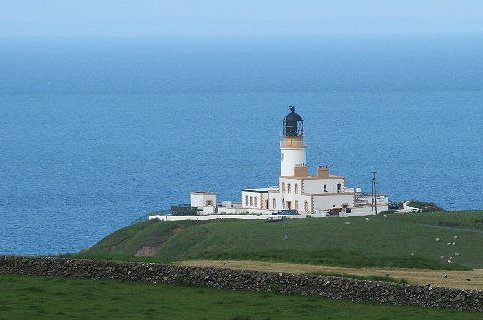 Killantringan Lighthouse.